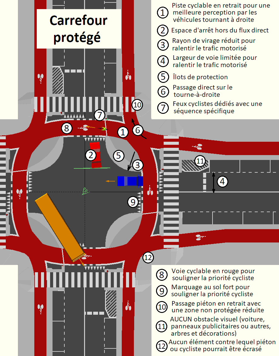 This is the version with french text of File:Protected_intersection_features.png